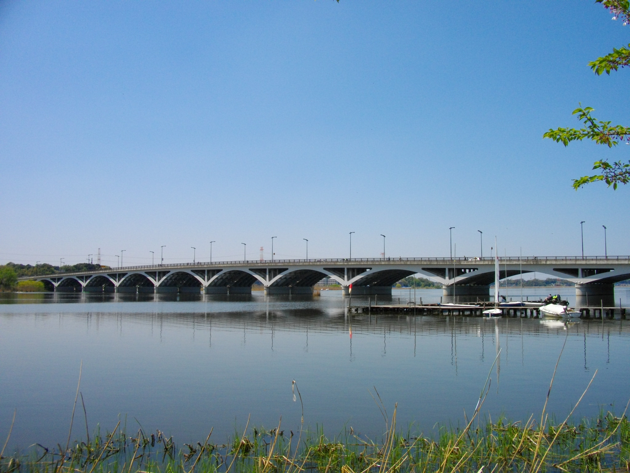 Tega Bridge